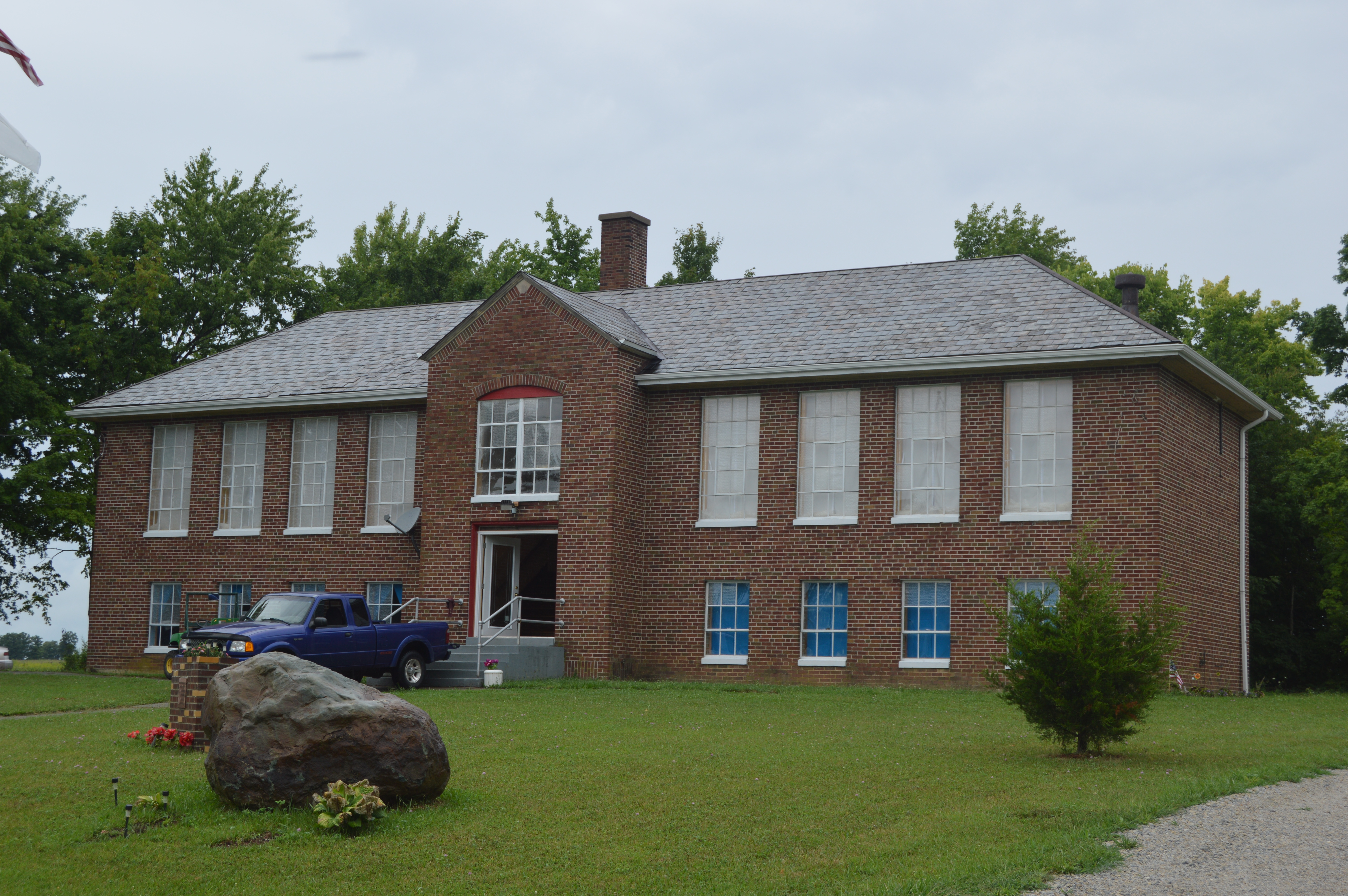 Front and eastern end of the former Dudley Township School, located on County Road 144 in Hepburn, Ohio, United States. It was built in 1931.